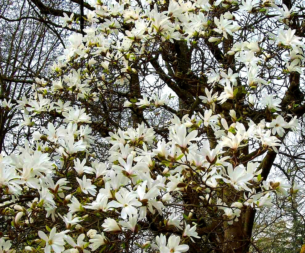 Blooming Magnolia cylindrica (de: Nachtduftende Magnolie) in the Botanical Garden Heidelberg